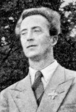 Tauno Suhonen, Knight of the Mannerheim cross #179